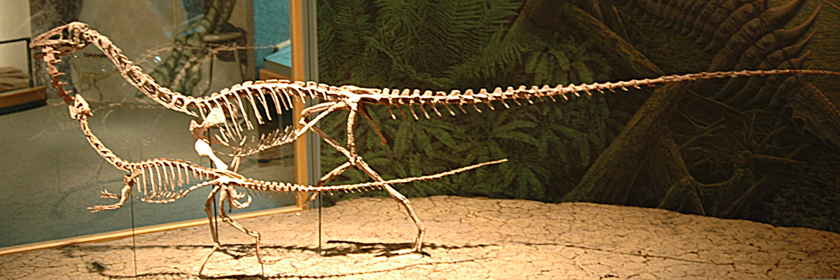 A photograph of Coelophysis bauri taken at the Denver Museum of Nature and Science in 2007.